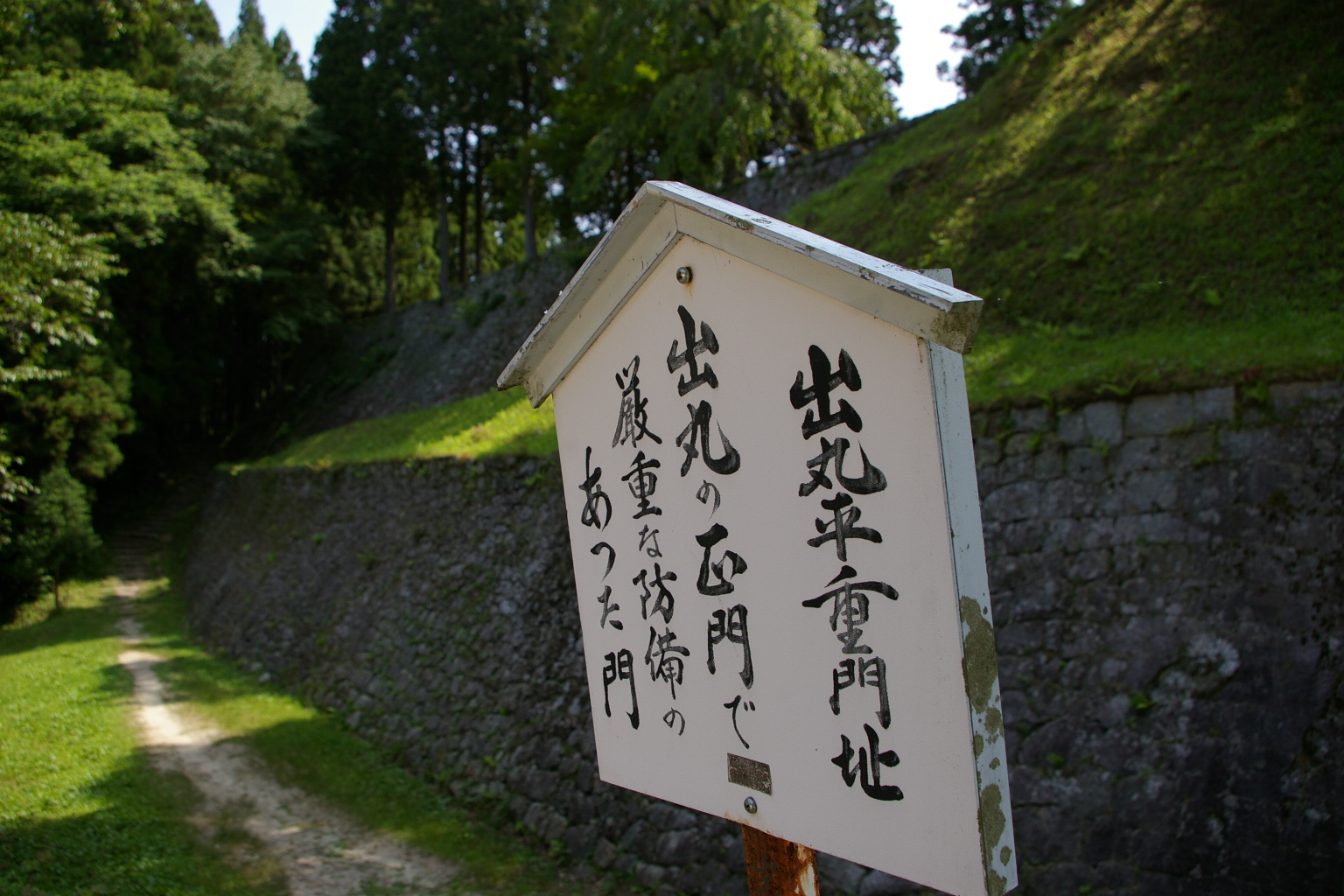 Iwamura Castle (Agi Nakatsugawa City, Gifu Pref, Japan)